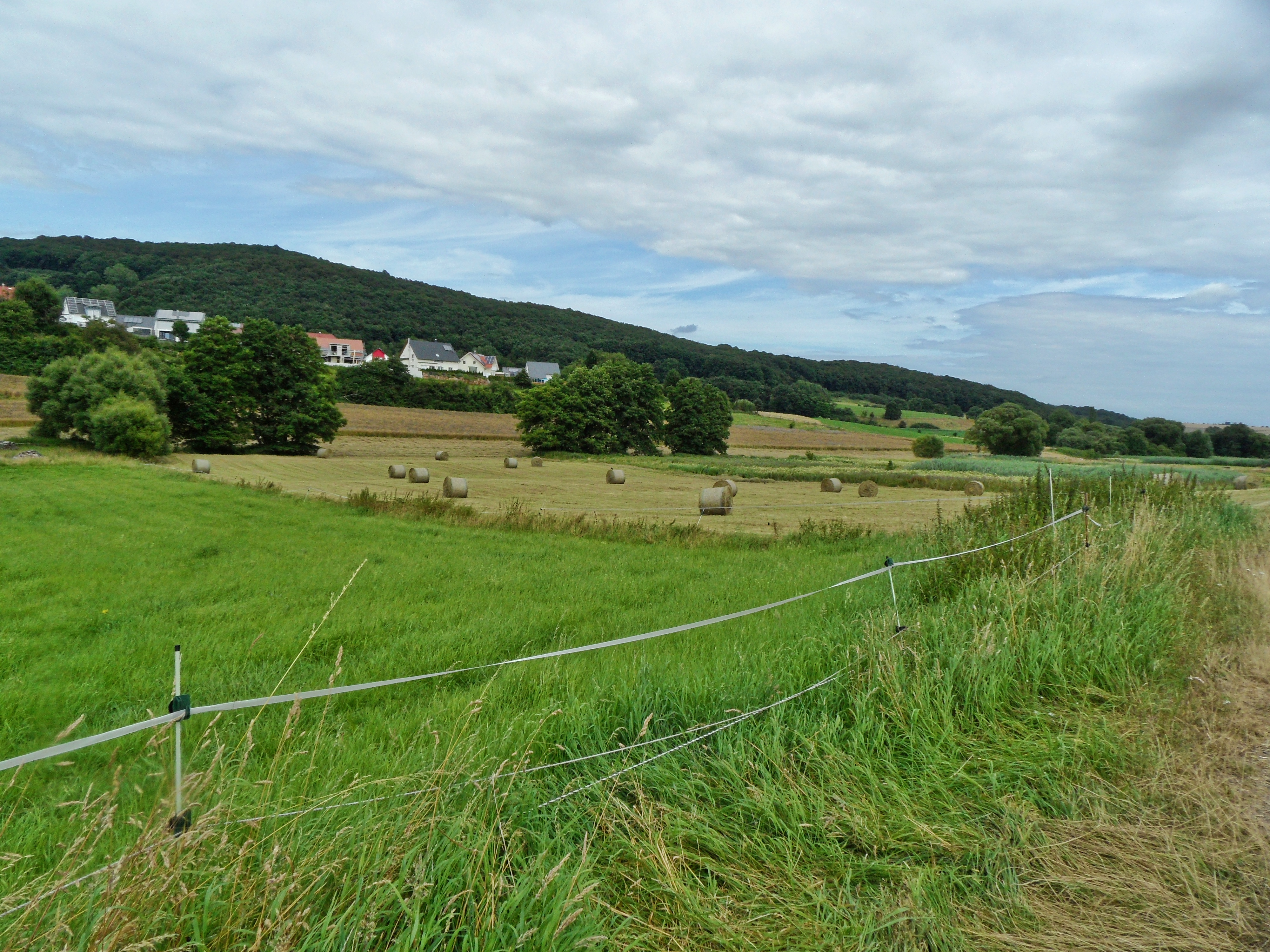 Rural area around the Western Palatinate village of Erzenhausen; in the background the "Eulenkopf" mountain (422 m height), in the front the Rischbach valley.